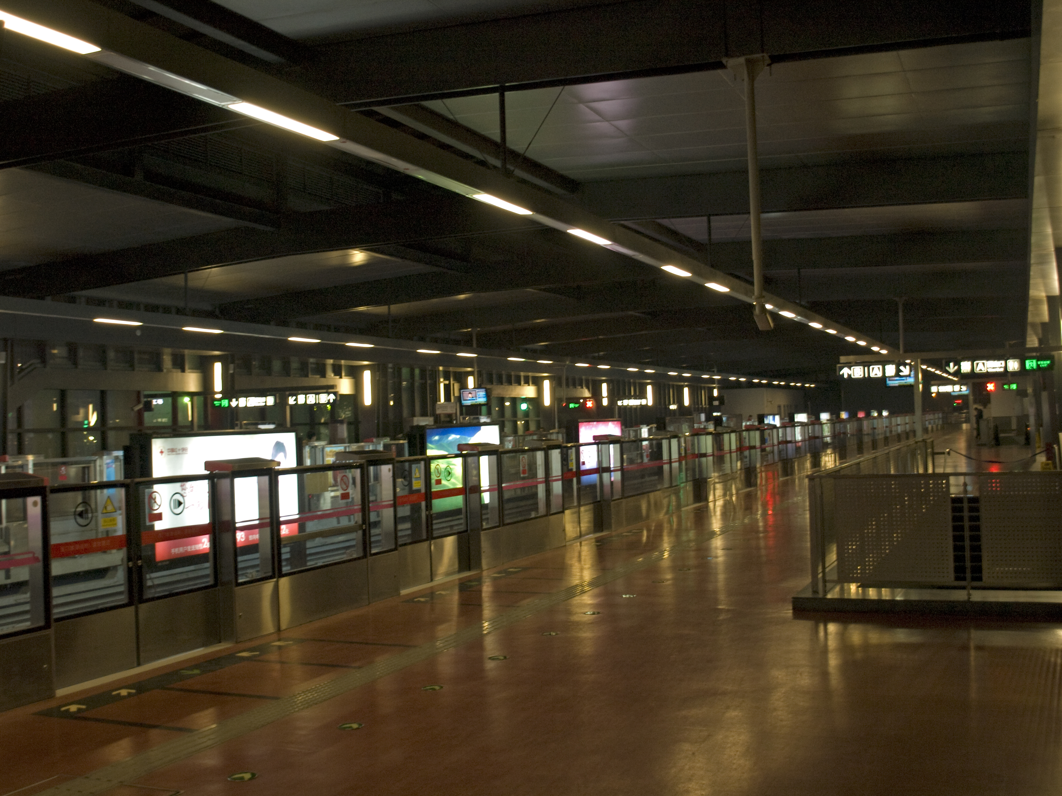 Jinghailu station, Beijing subway, eastbound platform